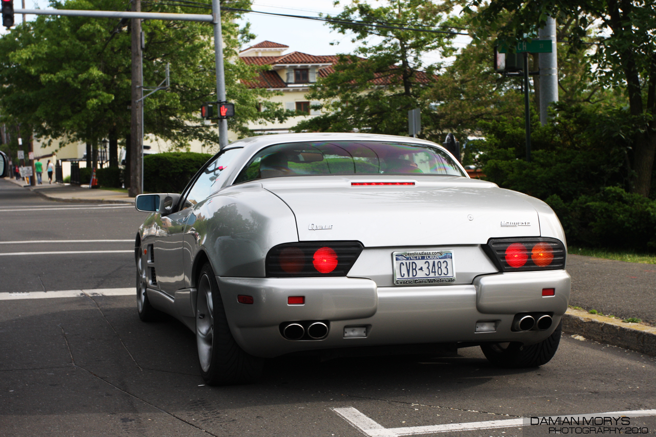 Rear of a 2000 Qvale Mangusta (serial number 112)